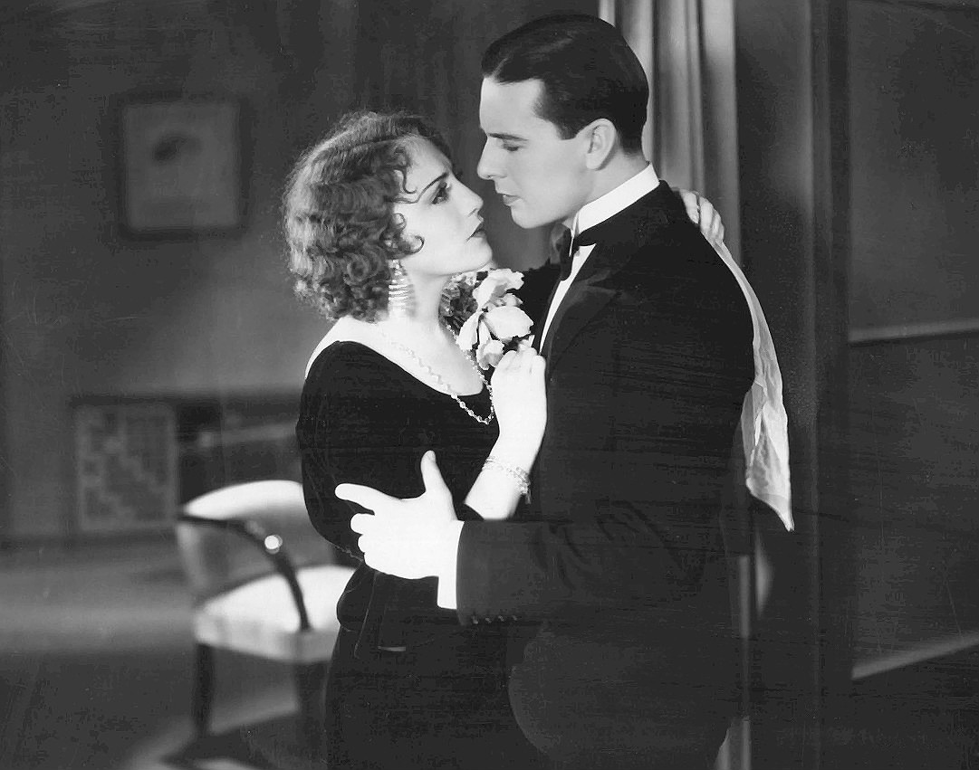 Photo from the 1930 film Alias French Gertie. Pictured are Ben Lyon and Bebe Daniels, this was their first film together. There are no copyright marks on the item.